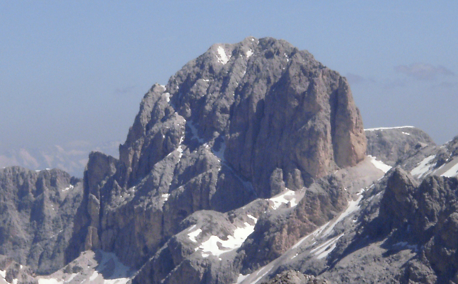 Kesselkogel from Rotwand (SSW)